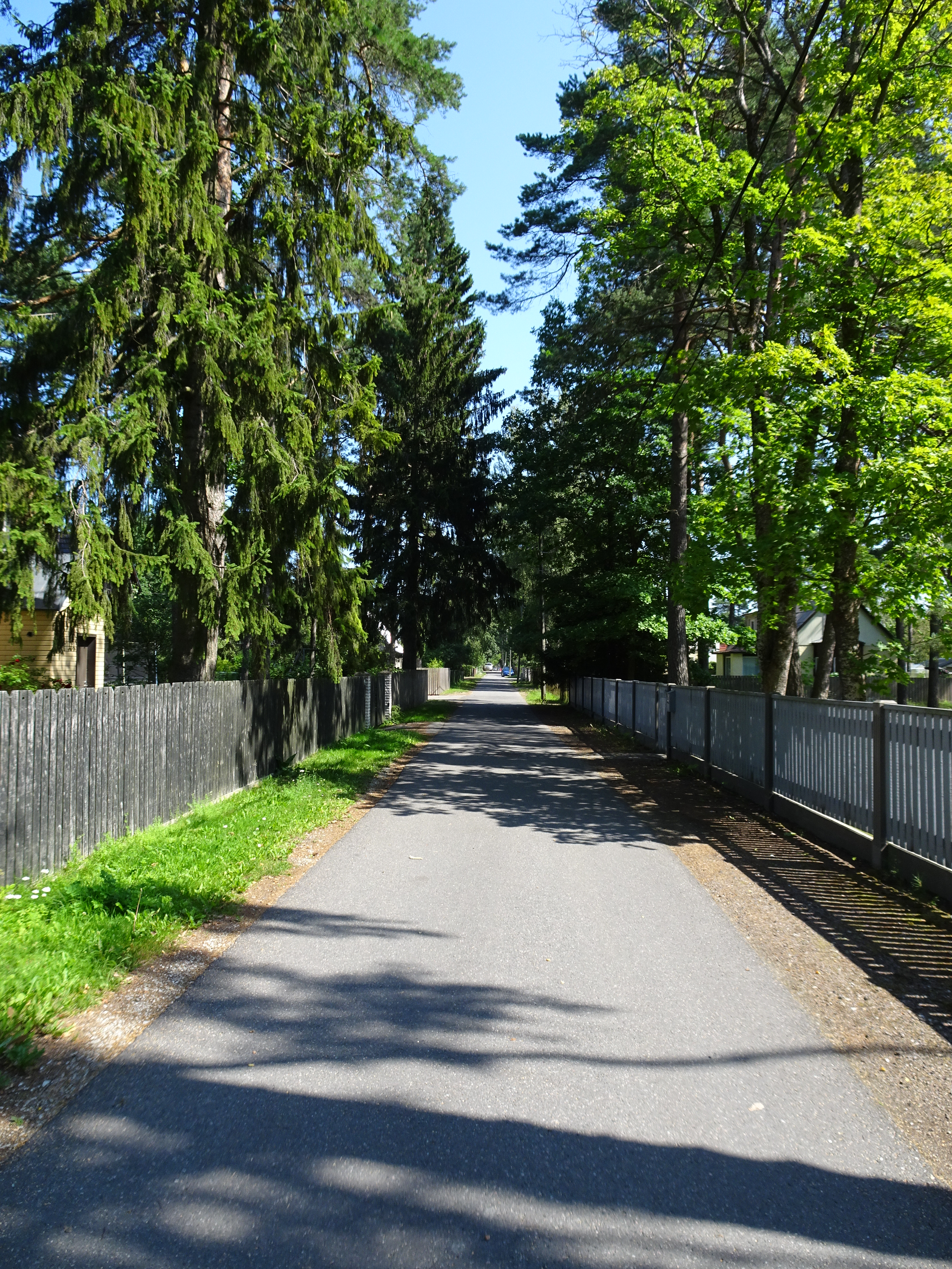 Leegi Street ia Tallinn, Estonia